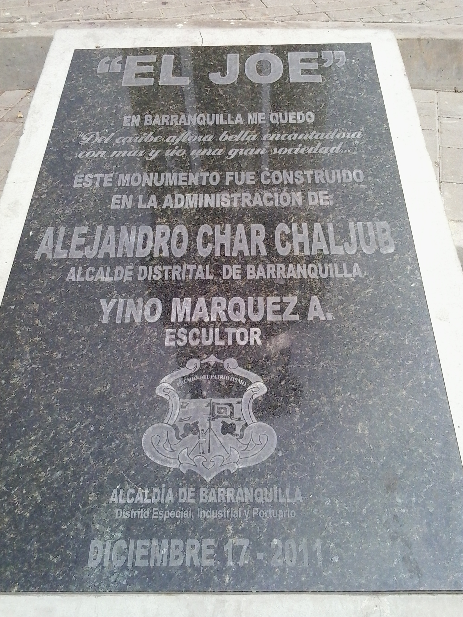 imagen de monumento